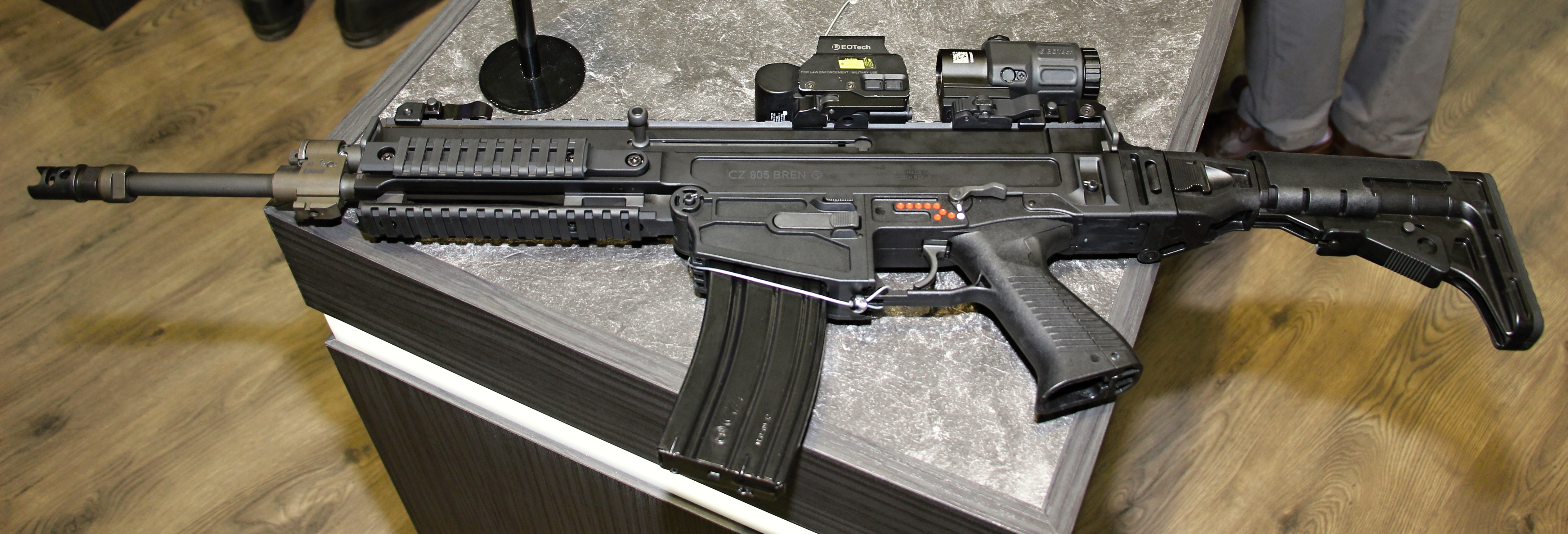 CZ 805 BREN assault rifle with EOTech sights and housing conversion for STANAG (NATO) magazine. IDET 2017, Brno Exhibition Center, Czech Republic.